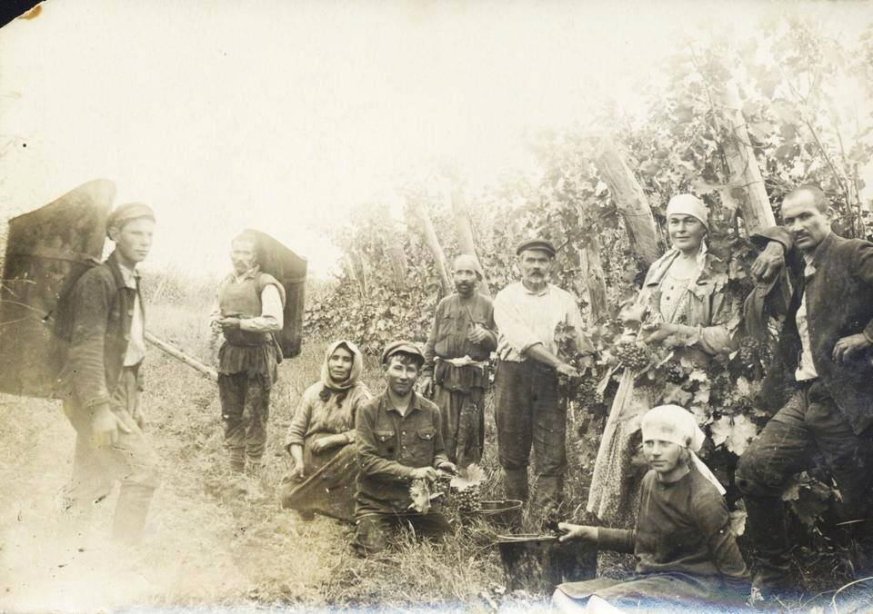 Grape gathering in Helenendorf (today - Goygol town in Azerbaijan)